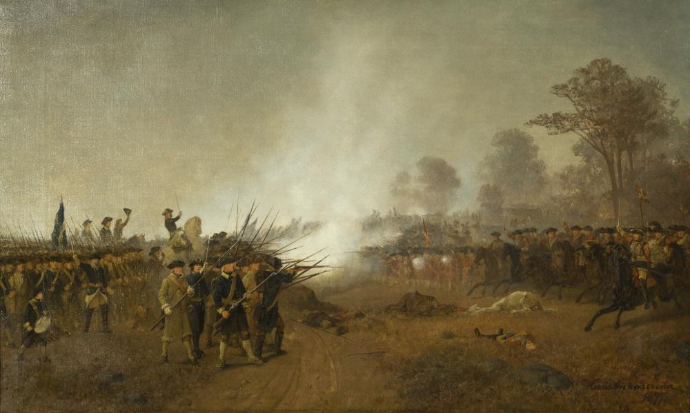 Stenbock's shepherds at Helsingborg 1710